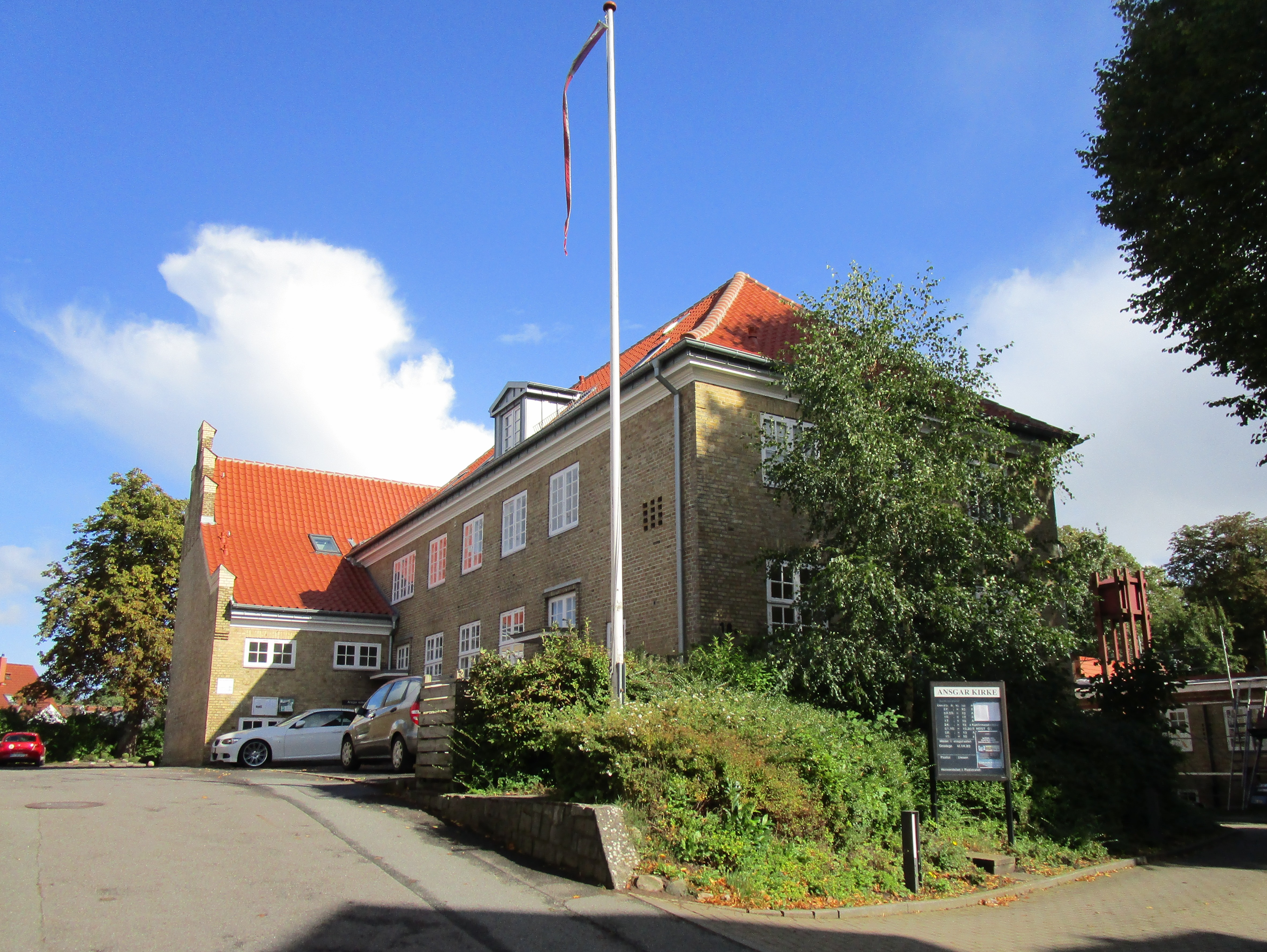 Ansgarhuset Slesvig / Schleswig